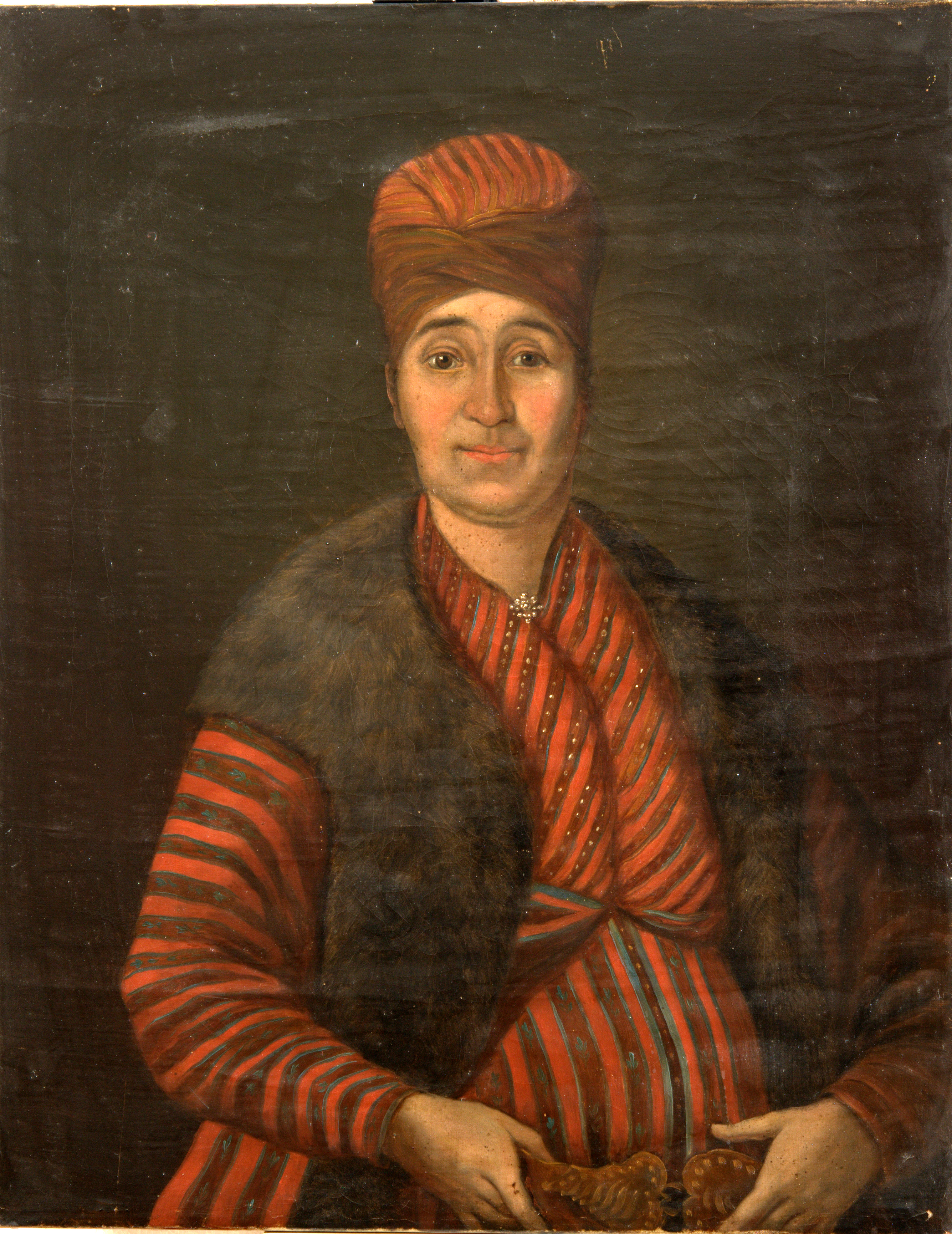 Portrait of Anna Adreanna d'Ymbault née Vuczin (c1719-1781) by an unknown Bucovinian painter c1780. Measures of the portrait 52x68 cm. The portrait is since 1945 in possession of the Slovácké muzeum, Uherské Hradiště, before it was at the manor of Bilovice (UH), Czechoslovakia Nikon D300 + AF-S Micro Nikkor 60mm f/2.8G ED